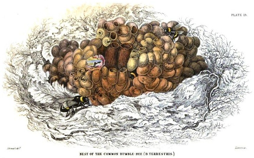 'Nest of the Common Humble-Bee (B. terrestris)', Plate 15 from The Naturalist's Library, Vol. VI. Entomology, by Sir William Jardine. Edinburgh: W. H. Lizars, 1840. Engraved by William Home Lizars (1788-1859) after drawing probably by James Hope Stewart (1789-1883). Plate states "Stewart del, Lizars sc".